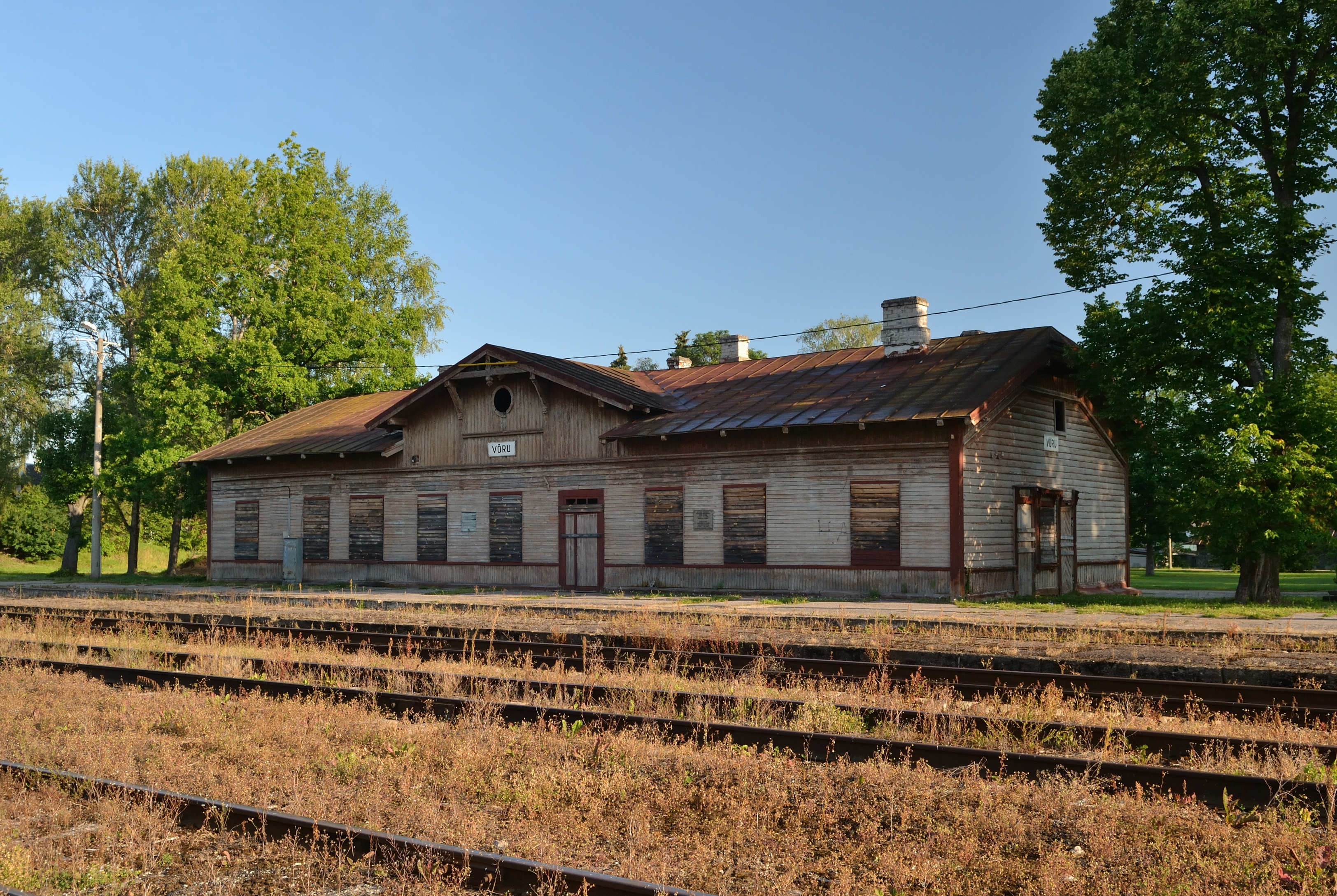 Võru station main building